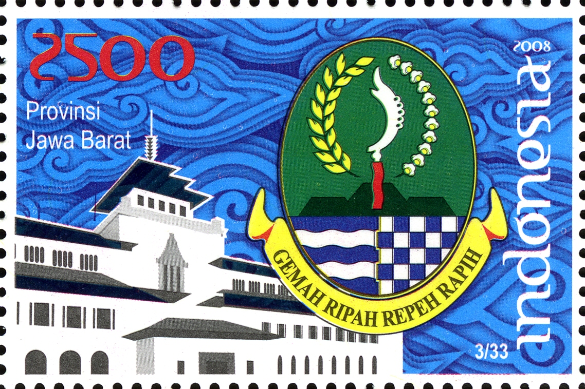 Stamps of Indonesia